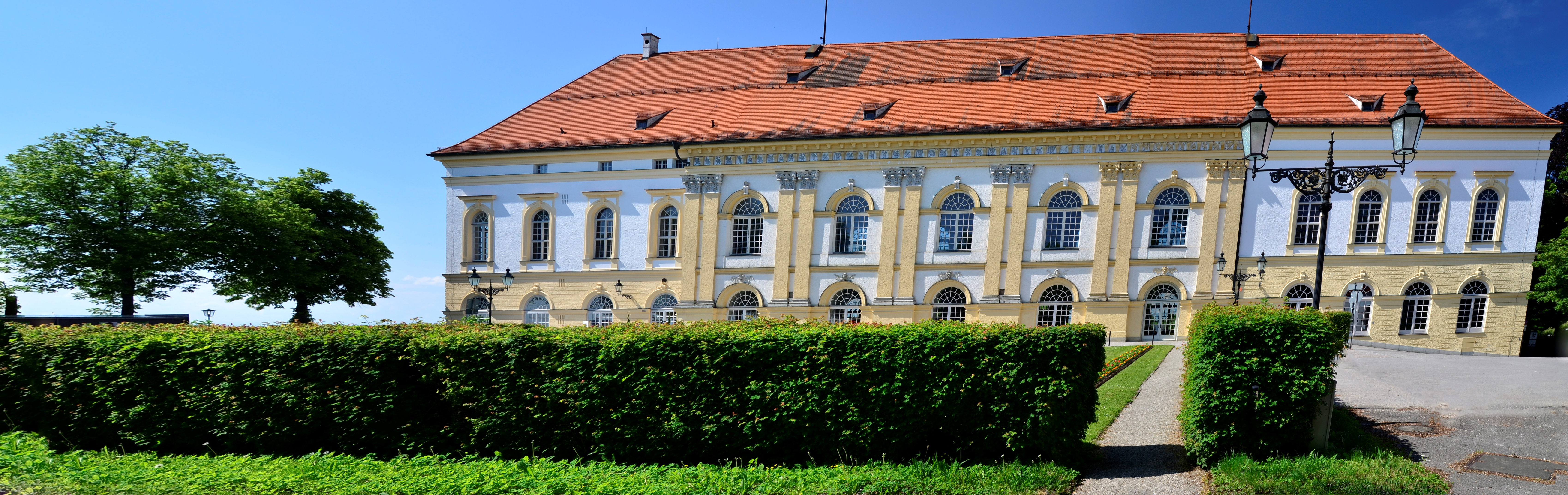 Dachau Castle, Front side